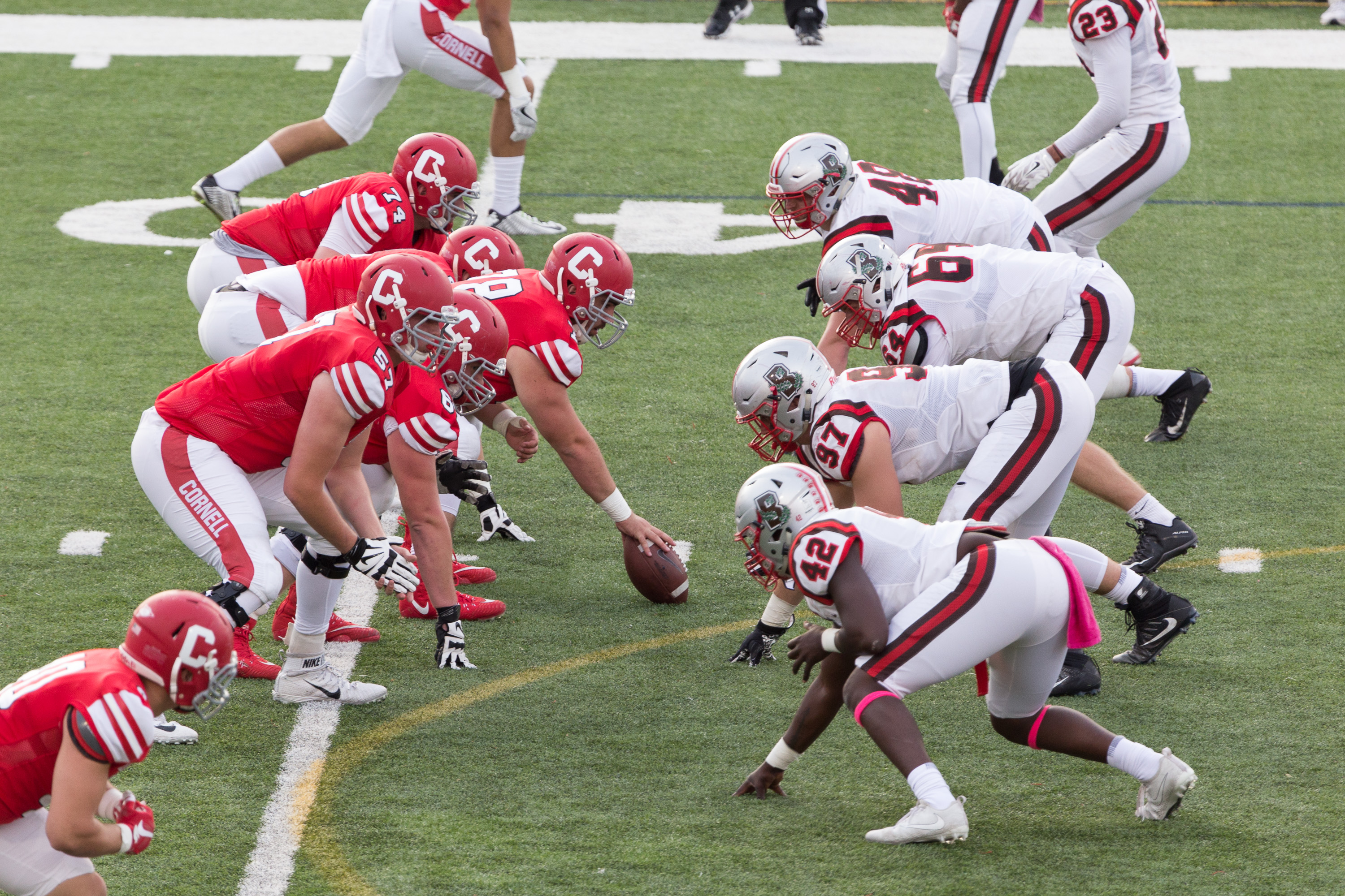 Cornell vs Brown University, Homecoming 2017. Schoelkopf Field, Oct 21, 2017.